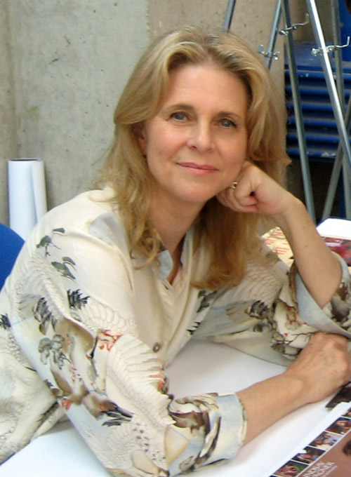 Actress Lindsay Wagner, taken at autograph booth at San Diego Comic-con on July 26, 2008